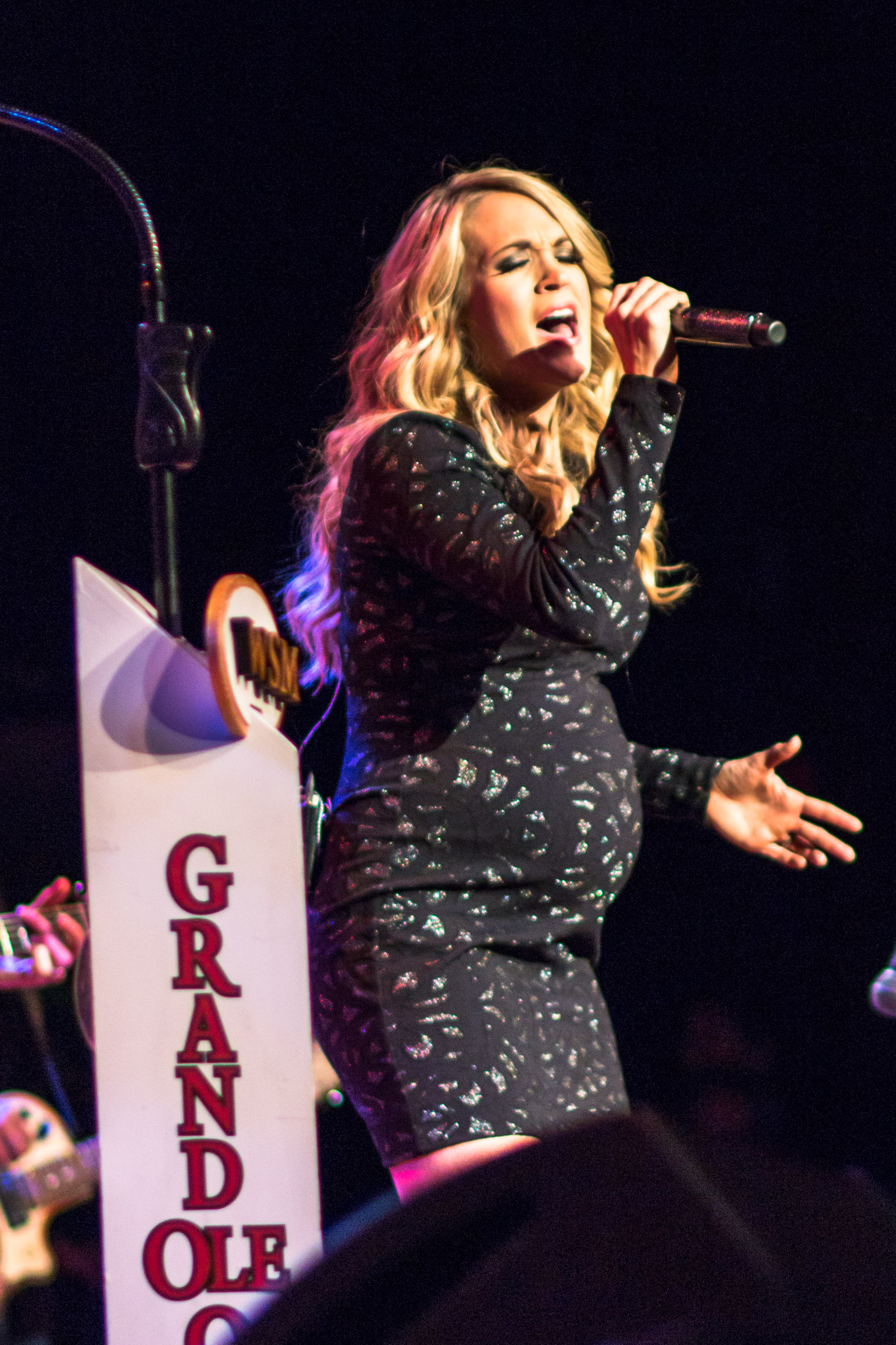 Carrie Underwood performing at Ryman Auditorium on the Grand Ole Opry on December 13th, 2014